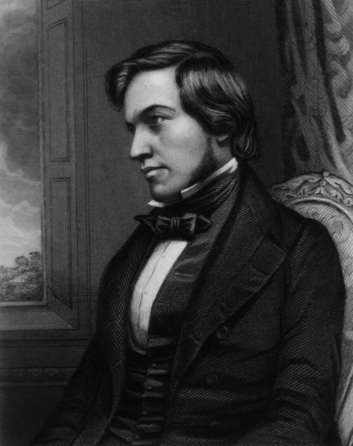 George Fownes (14 May 1815, London – 31 January 1849, Brompton, Kent)